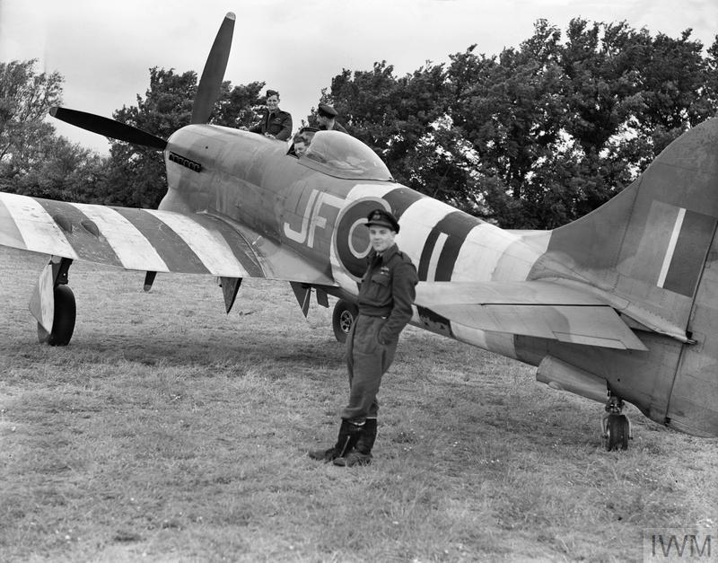 Wing Commander R. P. Beamont, wing leader of No. 150 Wing, leaning against a Hawker Tempest Mark V of No. 3 Squadron RAF at Newchurch Advanced Landing Ground, Kent.